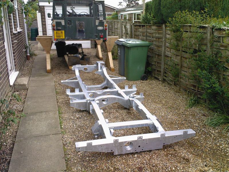 A new galvansied chassis for a Land Rover Series 3 109". The body that will be fitted to this chassis is seen supported on trestles.